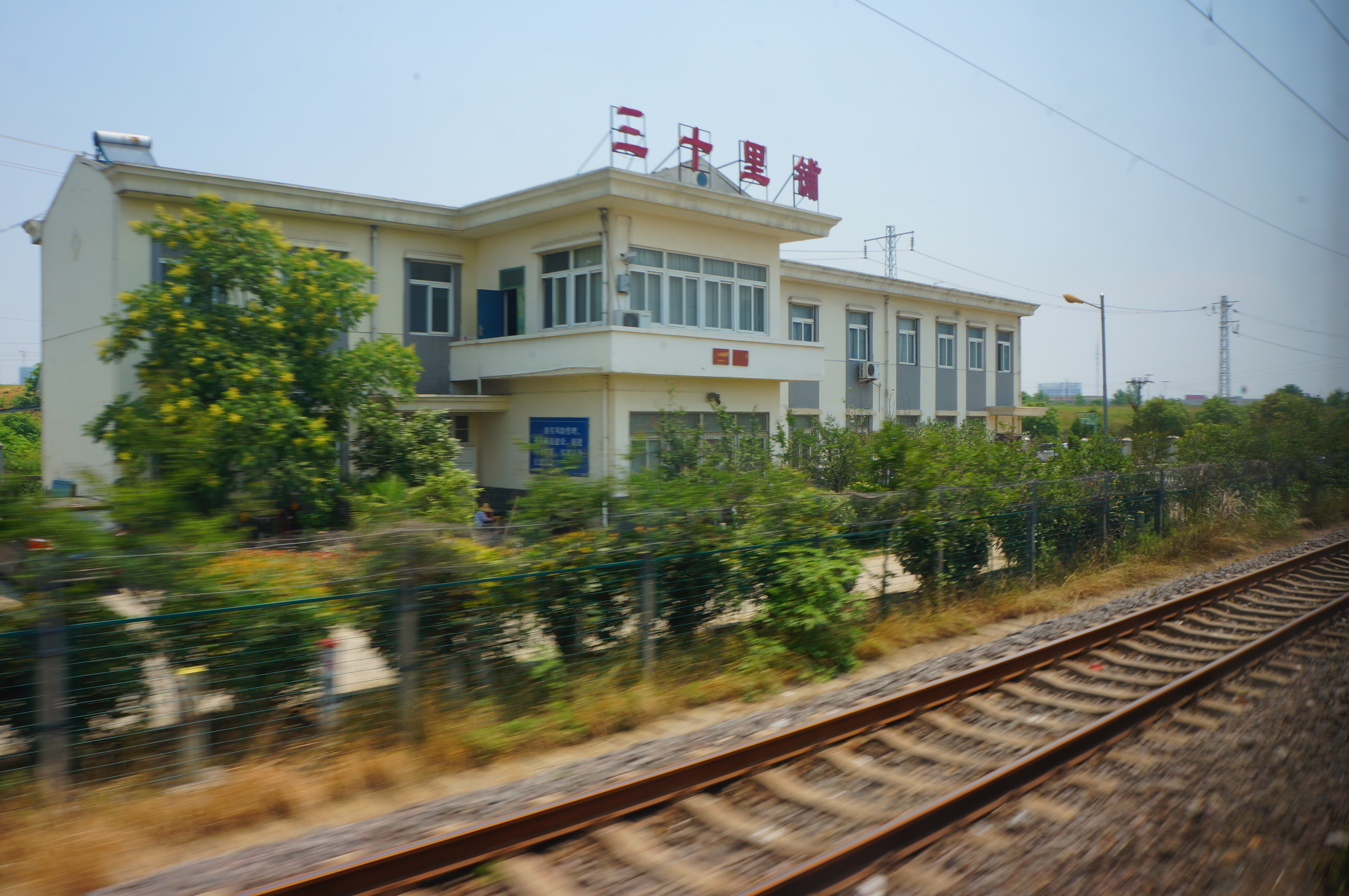 201705 Sanshilipu Station, I did not think I could re-visit this station when I was on K1106